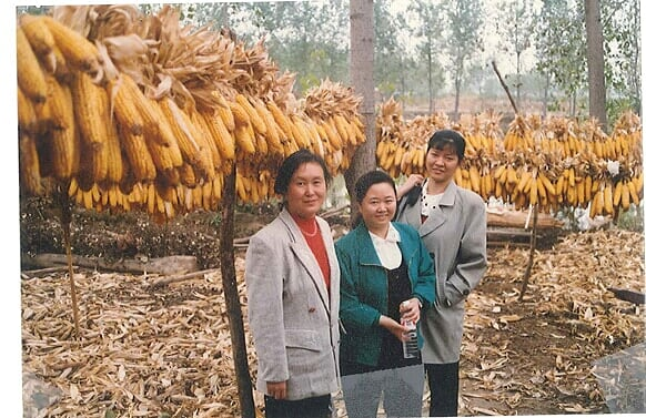 Dr Shuping Wang (center) visiting rural AIDS village in Henan